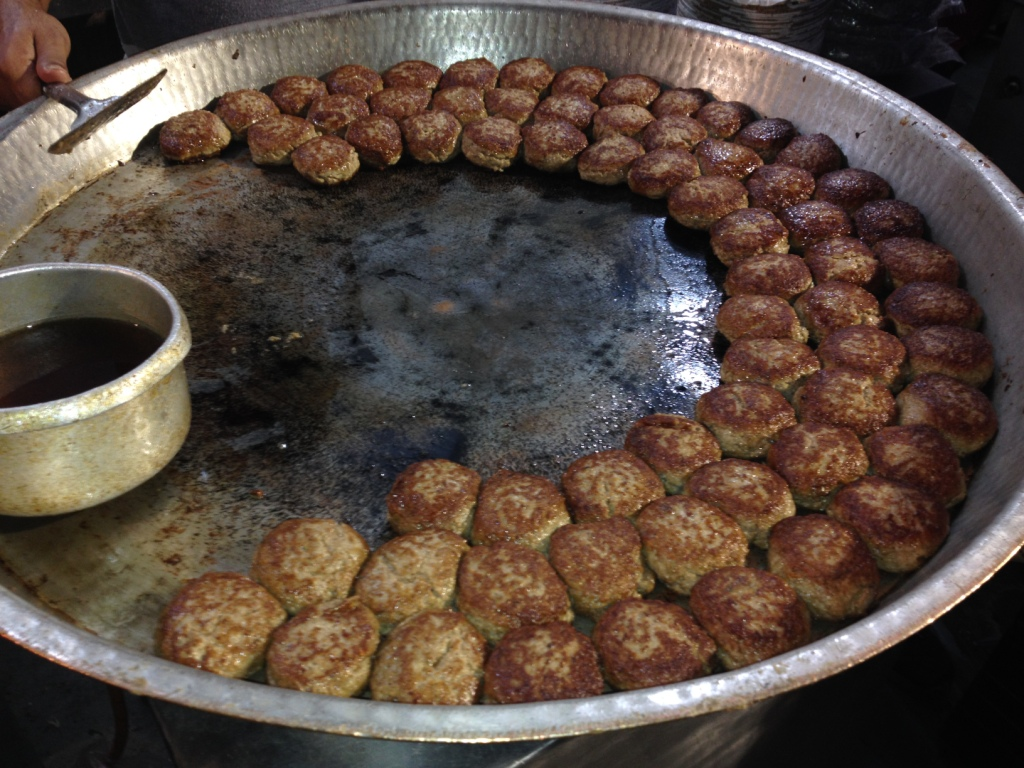 Minced meat, melt in mouth kebabs from the city of Nawabs Lucknow (Uttar Pradesh)